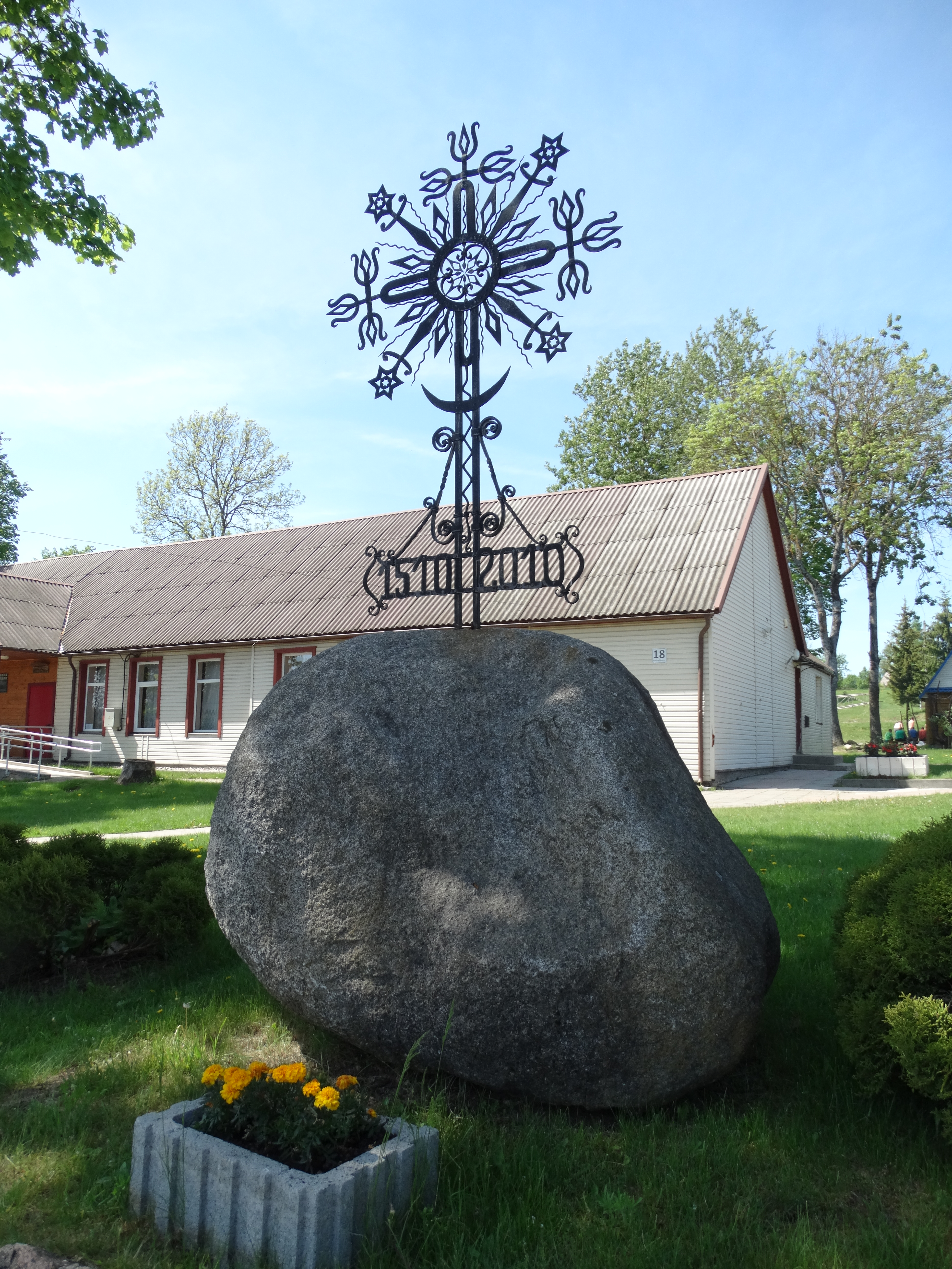 Ceikiniai, Ignalina district, Lithuania